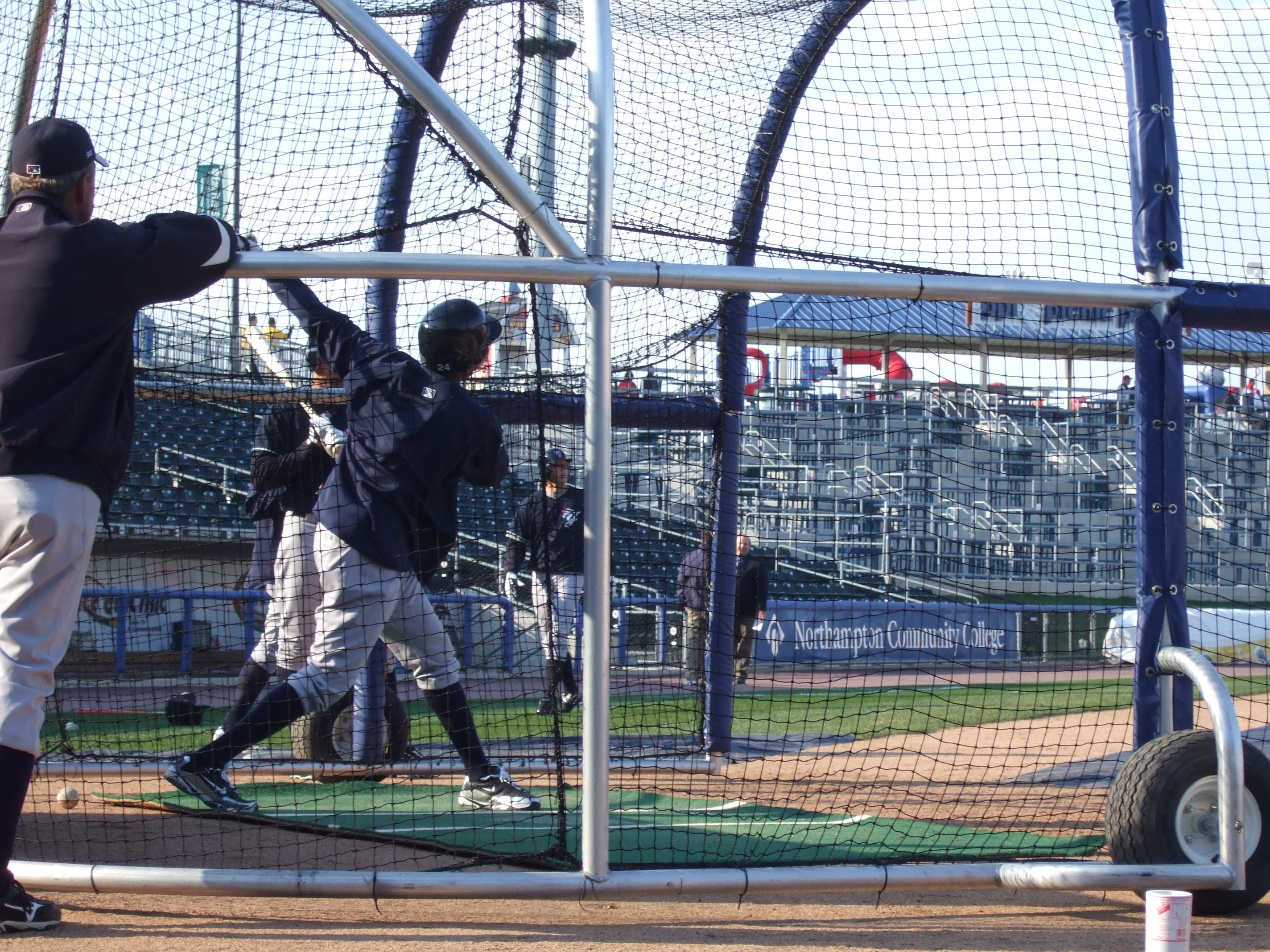 Scranton Yankees (NY Yankees AAA team) take BP in Allentown, before 2009 opening day.